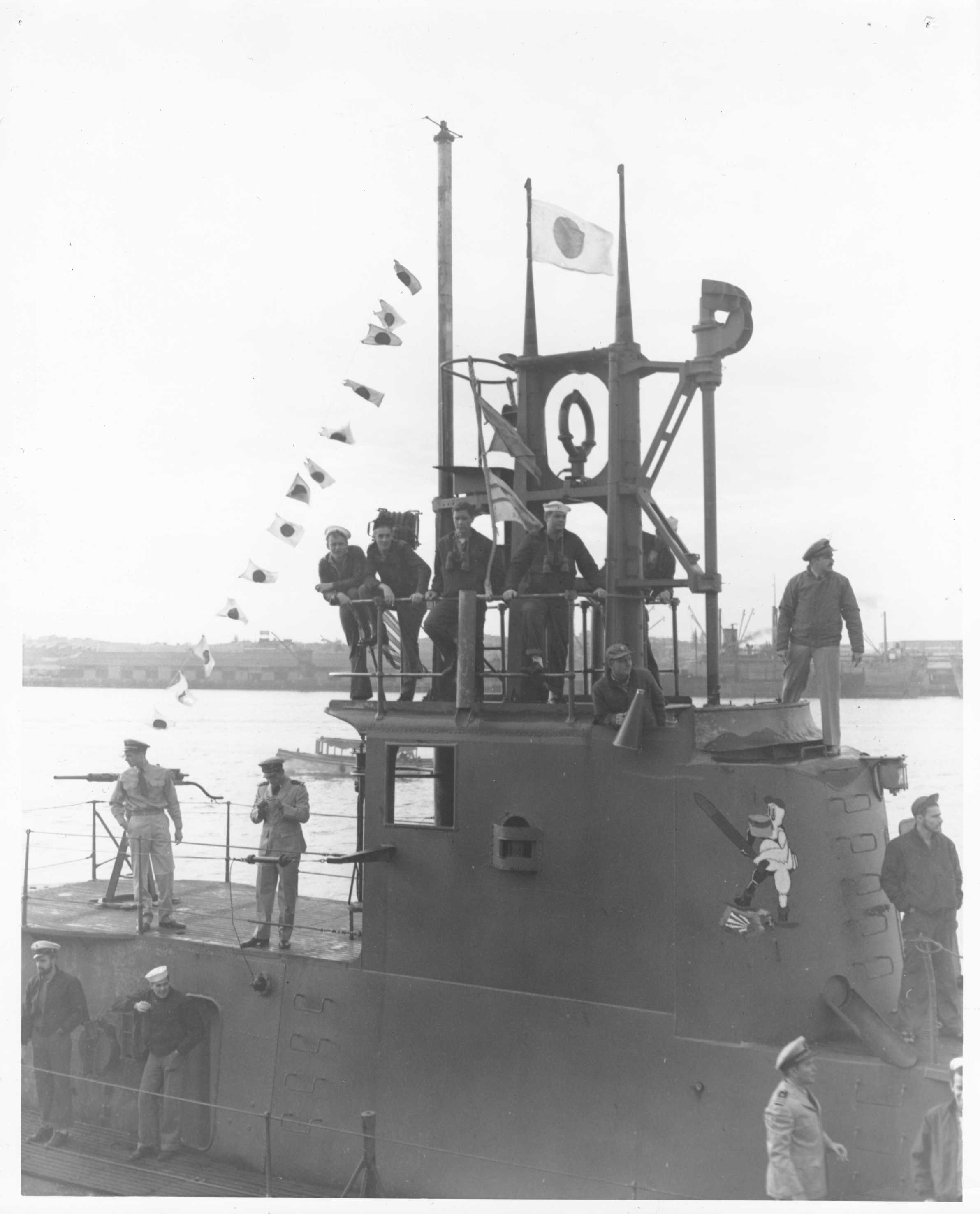 Unknown photographer USS Lapon returning from patrol, possibly last patrol of Cmdr. Stone. Cmdr. Stone can be seen in lower right of photo. The Japanese flag flying atop the No. 2 periscope was acquired by crew during from Japanese civilian fisherman in exchange for provisions. From the personal collection of Timothy Stone, grandson of Commander L. T. Stone, USS Lapon (SS-260).